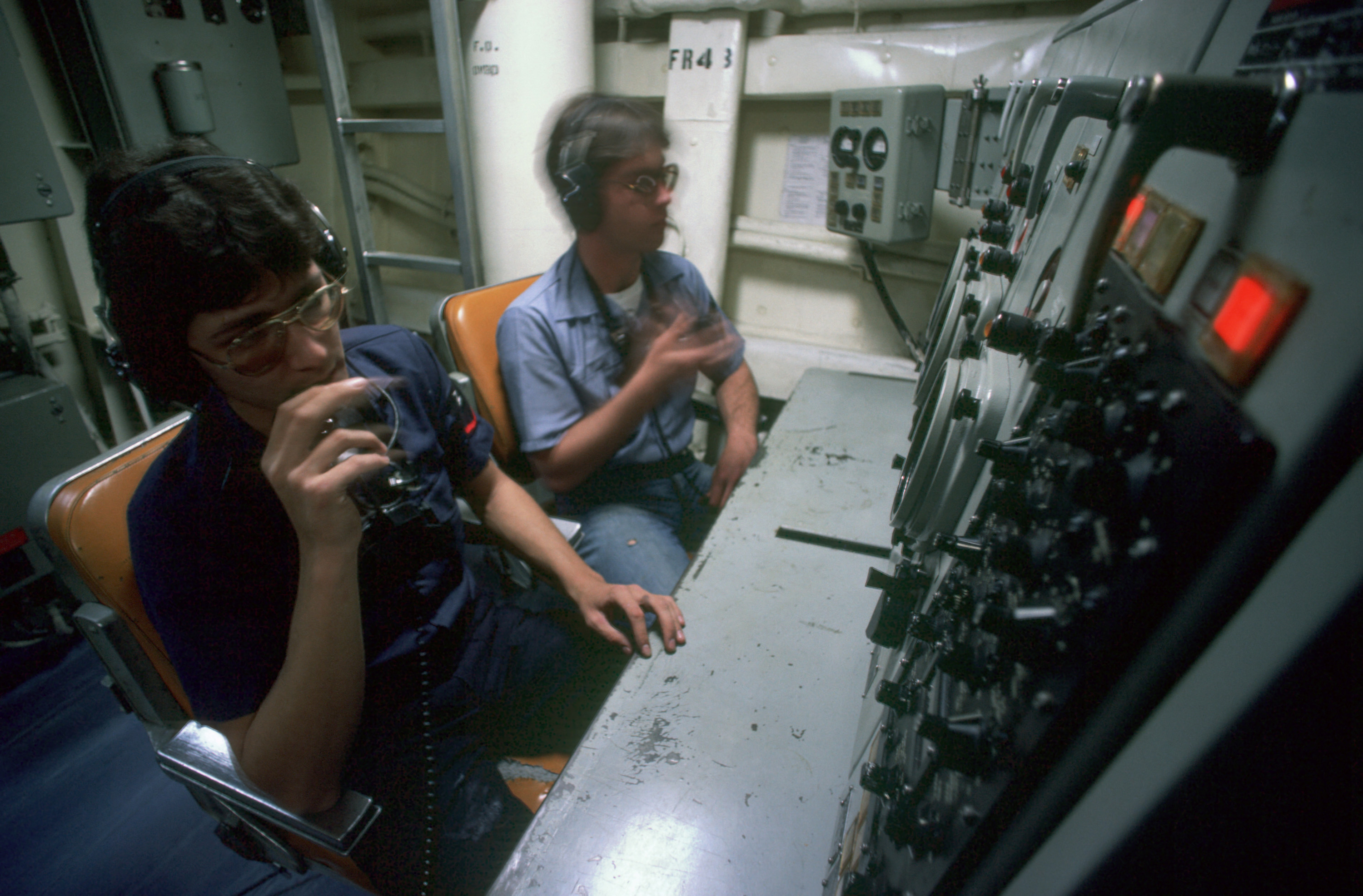 U.S. Navy crewmen man their stations in the fire control center aboard the Knox-class frigate USS Capodanno (FF-1093) during a naval gunfire support training exercise in Chesapeake Bay.